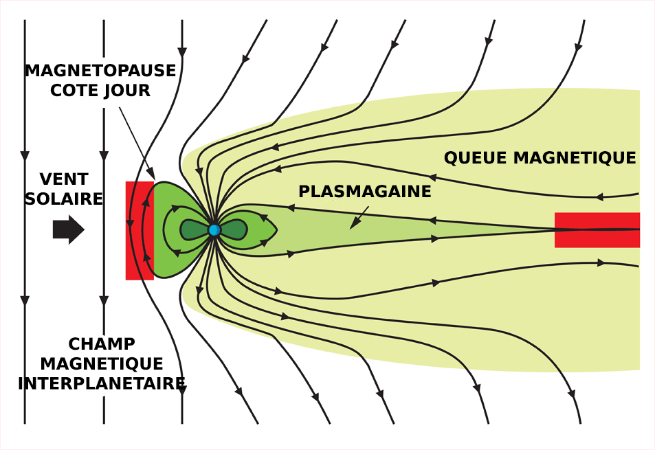 Magnetic reconnection zones in the earth's magnetosphere